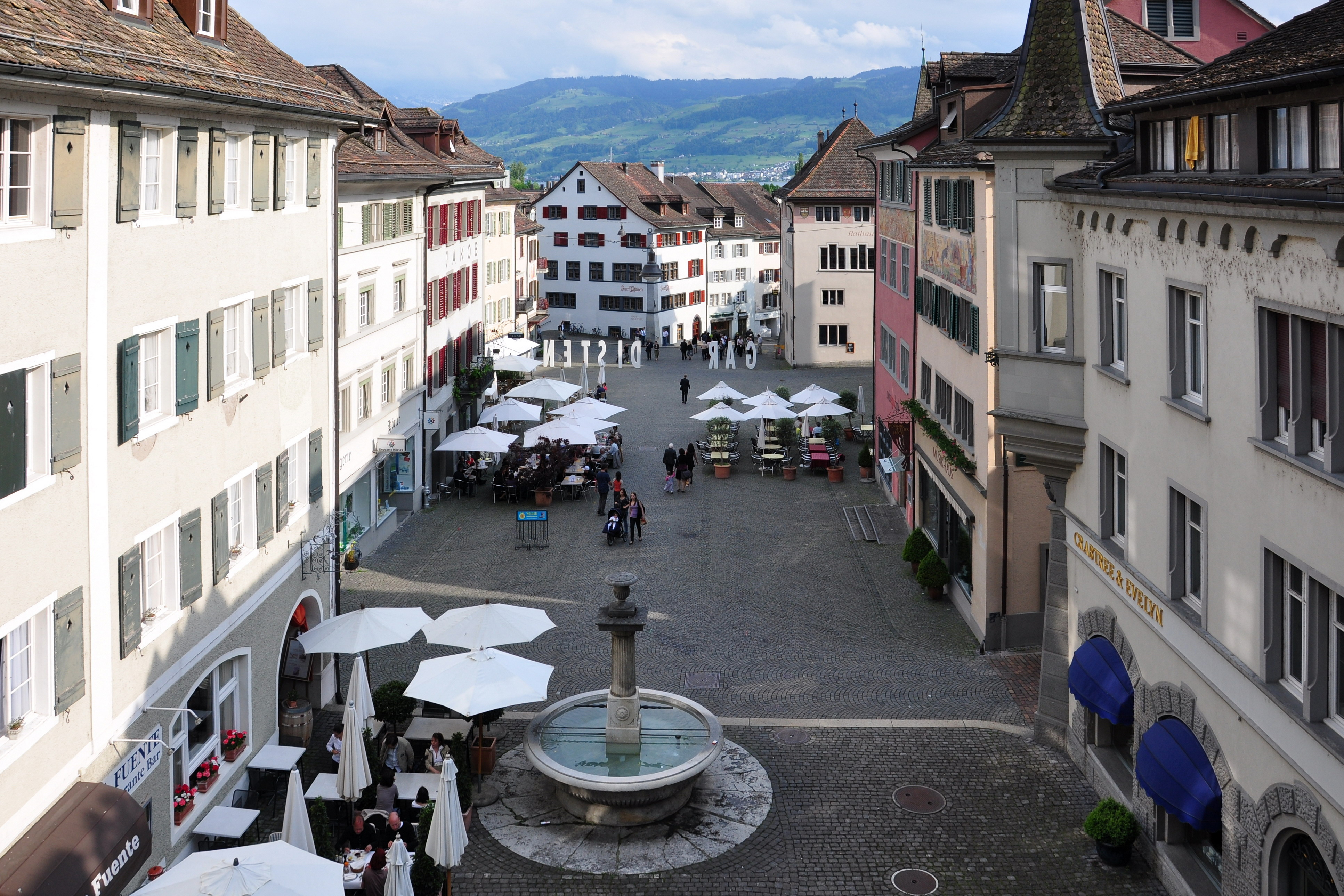 Rapperswil (SG) : Hauptplatz and historical quarter, in the background (to the right) the former Rathaus, as seen from Schloss Rapperswil.